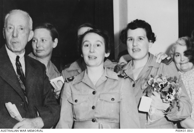 Informal group portrait of members of the Australian Army Nursing Service (AANS) at a homecoming celebration. Sister (Sr) Vivian Bullwinkel, 2/13th Australian General Hospital (2/13 AGH), second from left, Sr Iole Harper, (2/13 AHG), centre, and Sr Wilma Oram, 2/13 AGH, second from right, were both held as prisoners of war (POWs) for three and a half years in Sumatra. Sr Bullwinkel is well known as the sole survivor of the Banka Island massacre in which 21 Australian Army sisters were killed by Japanese troops on Banka Island, following the sinking of the SS Vyner Brooke.